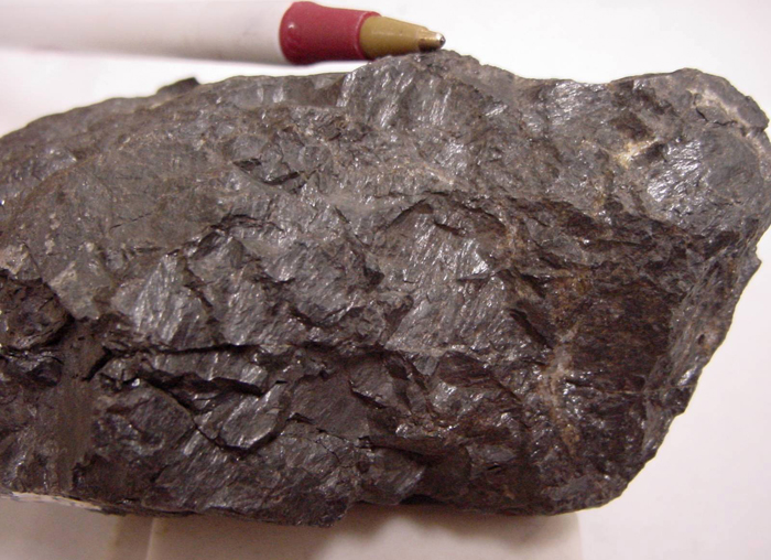 Wurtzite. Pen for scale. Mineral collection of Bringham Young University Department of Geology, Provo, Utah. Photograph by Andrew Silver. BYU index 2-4075b, ZnS